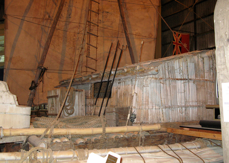 The 1973 Las Balsas expedition: Surviving (composite) raft exhibited at the Ballina Maritime Museum, in Ballina, New South Wales, Australia. The Las Balsas expedition is first-known multiple-raft crossing of the Pacific Ocean in recent history, and the longest-known raft voyage in history. The 3 original rafts were replicas of Pre-Columbian Ecuadorian style balsa wood vessels. The raft was salvaged and reconstructed from the remains of the two rafts that beached at Ballina following their expedition across the Pacific. The third raft drifted further south once the crew were recovered, and was eventually sunk.